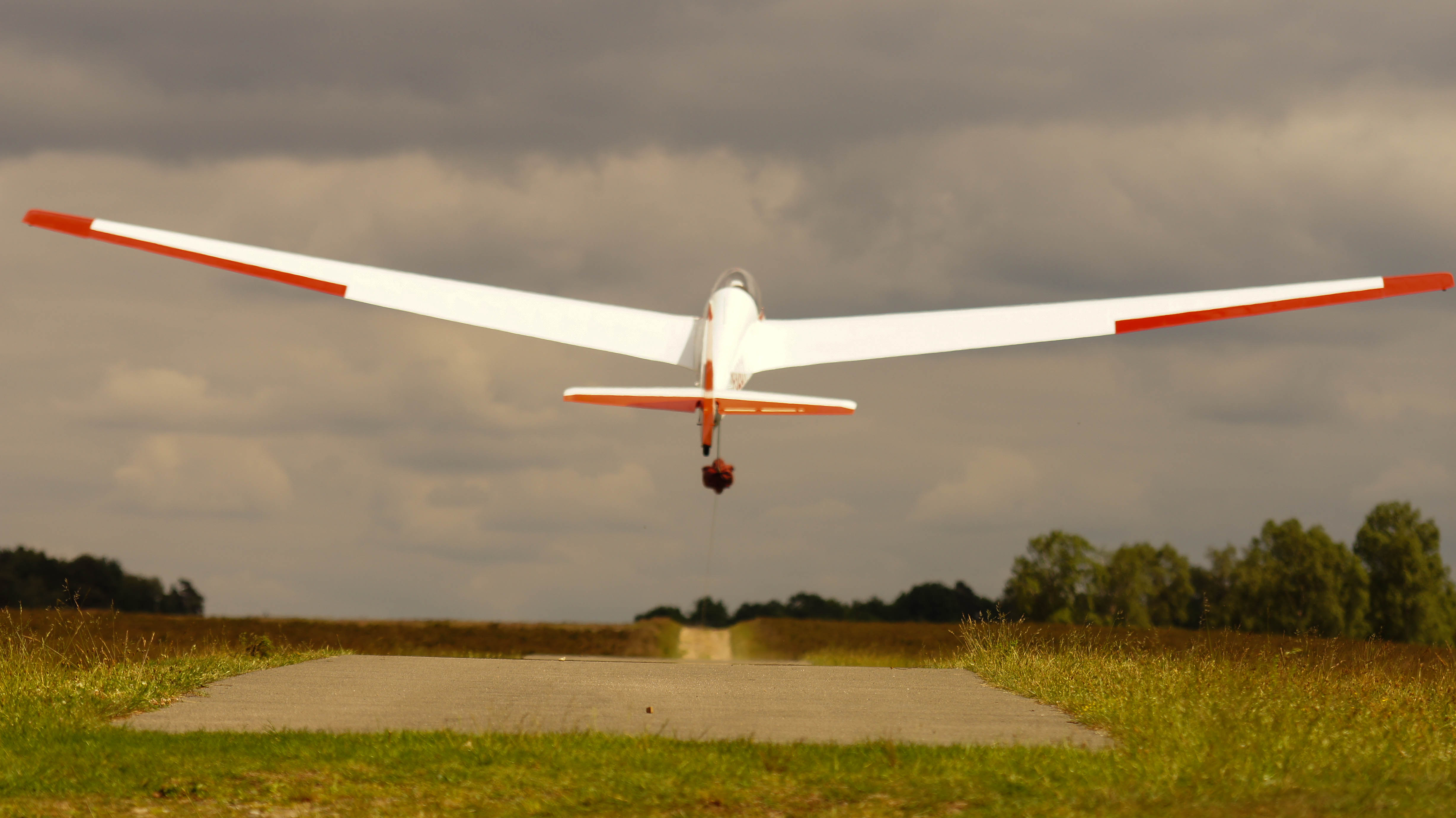 sailplane's liftof with the help of a cable winch